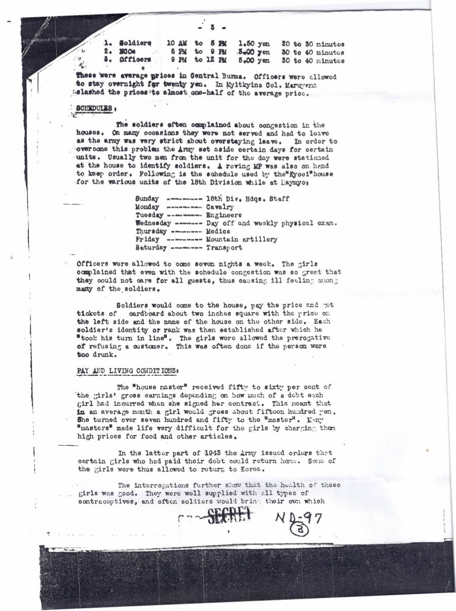 Japanese Prisoner of War Interrogation Report No. 49 page 3